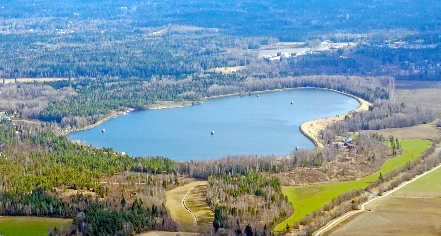 Silvola artificial lake, Vantaa.This photograph was taken with a Sony ILCE-5000